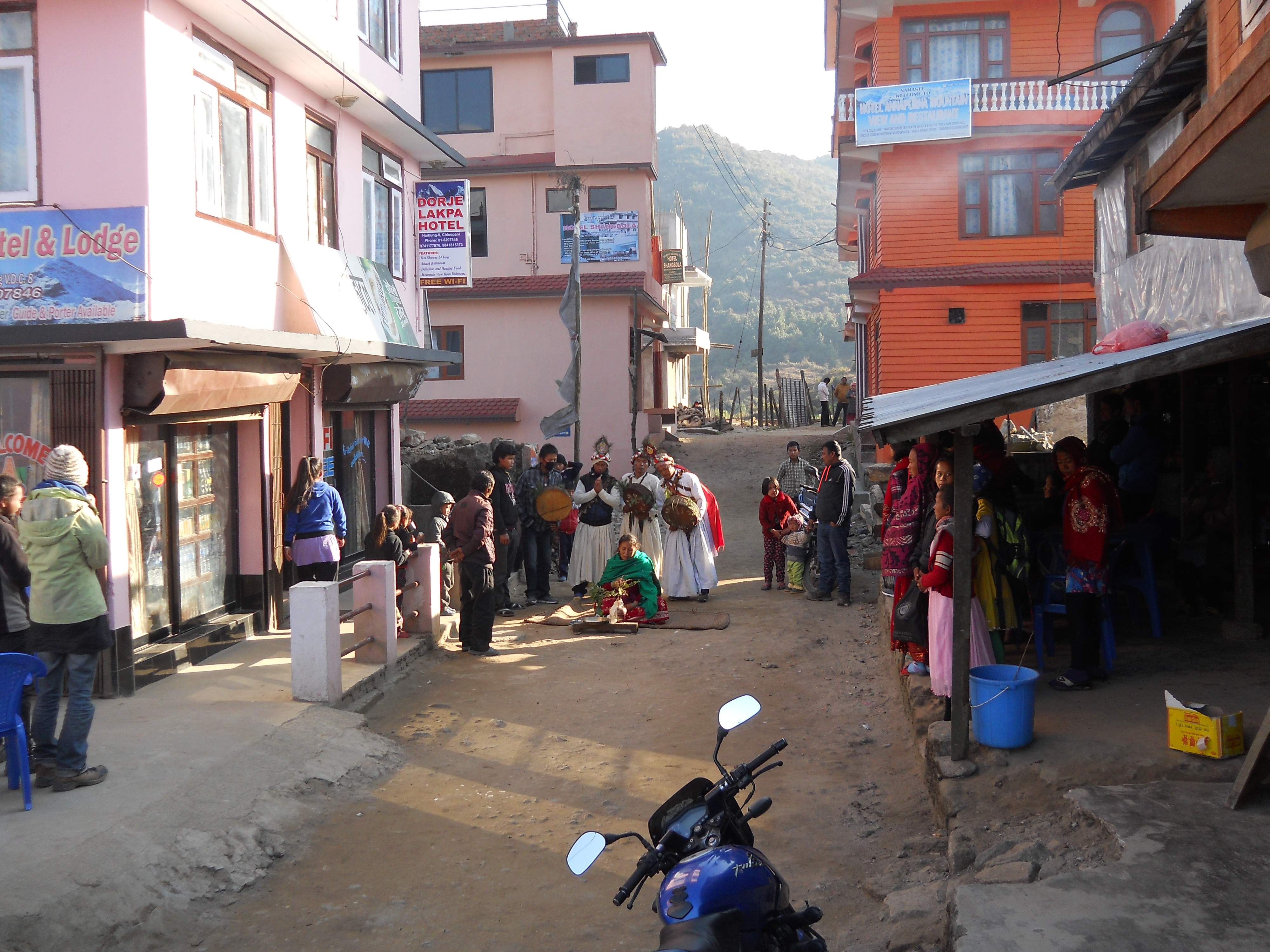 Chisapani